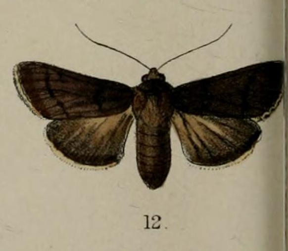 Illustration of Bityla sericea Butler, 1877 as given in first description of species.